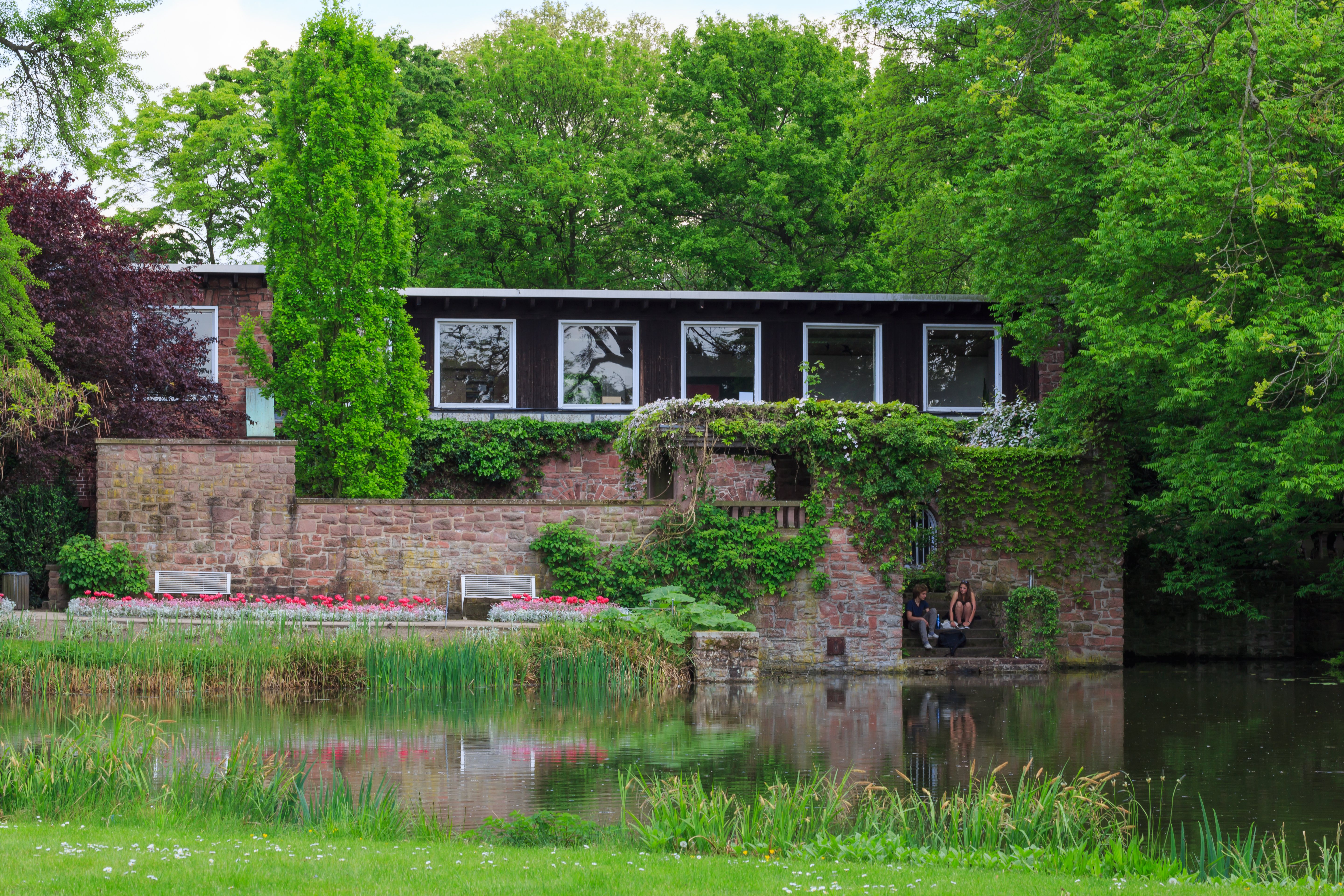 Cologne, Germany: "Green School Flora" in the Flora Cologne gardens